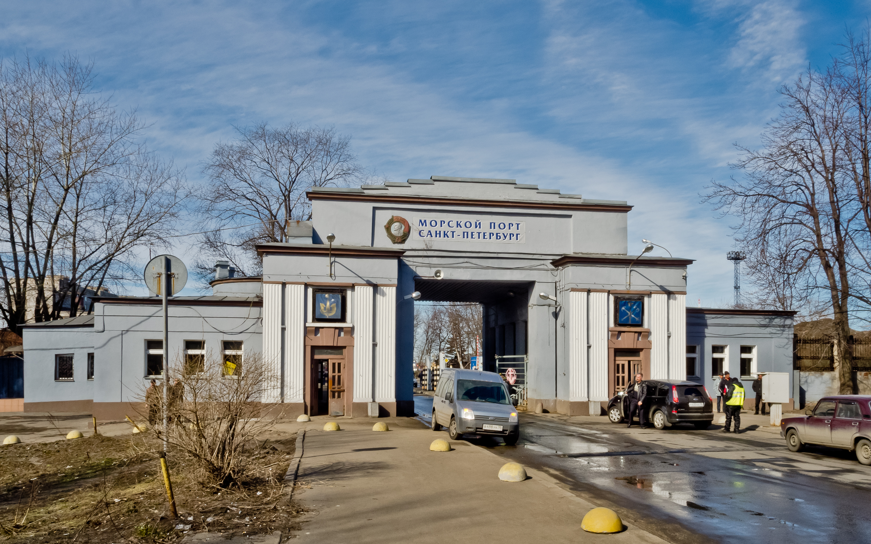 Sea port of Saint Petersburg. Main entrance.